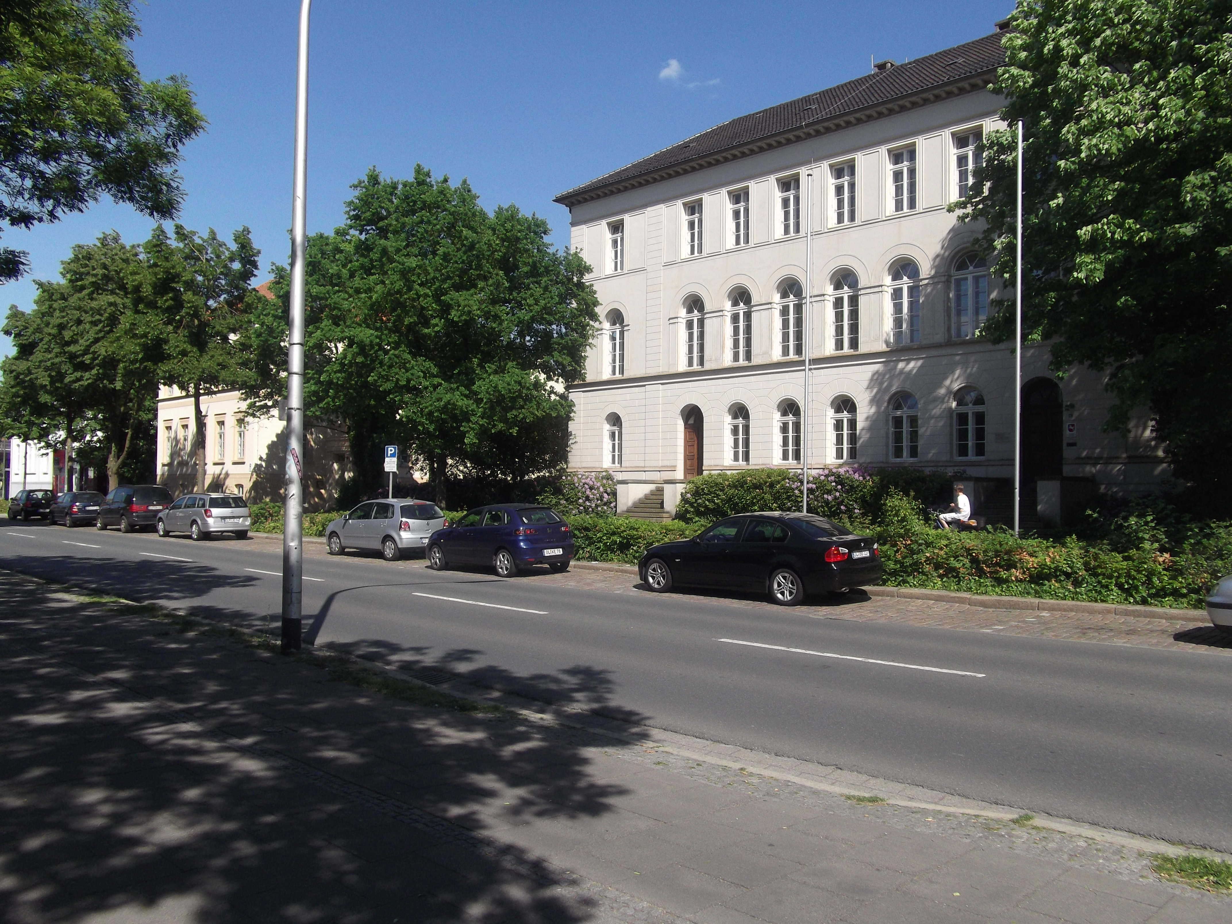 Building of the Evangelisches Lehrerseminar Oldenburg in Oldenburg (Oldenburg). Used from 1846 to 1927 and 1947 to 1965 from various institutions for the education of teachers. Location today Peterstrasse 42 and 44.